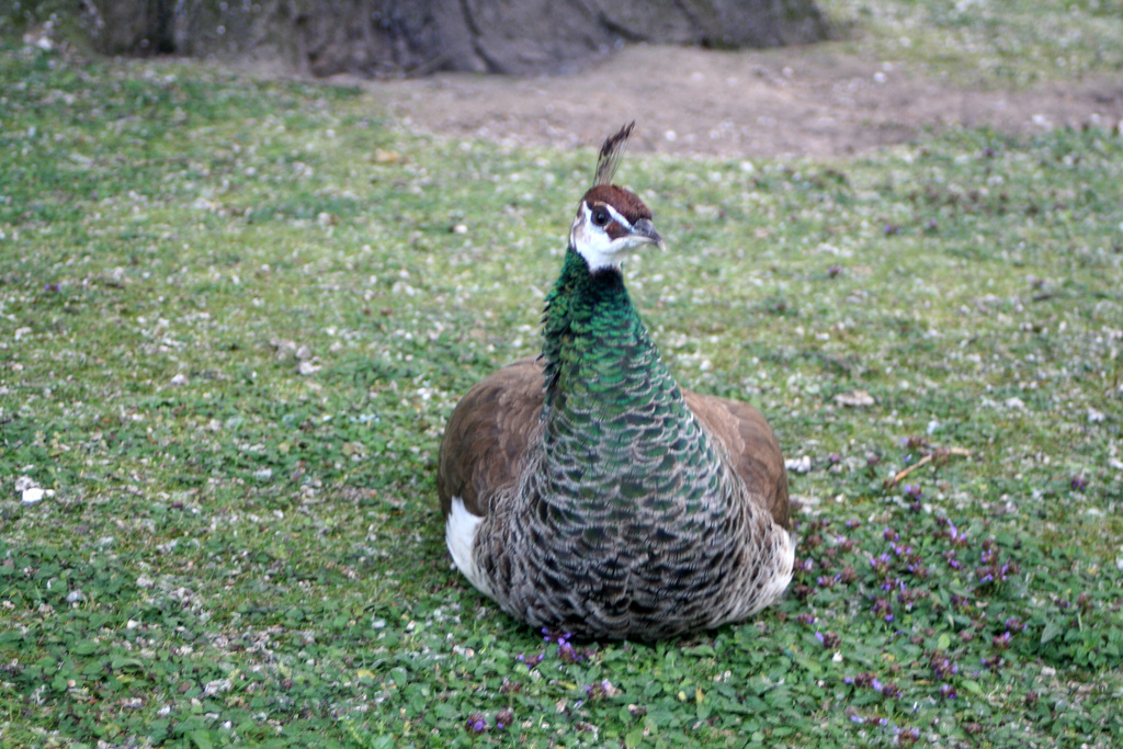 A female Indian Peafowl in Parque Isabel la Católica, Gijon, Spain.